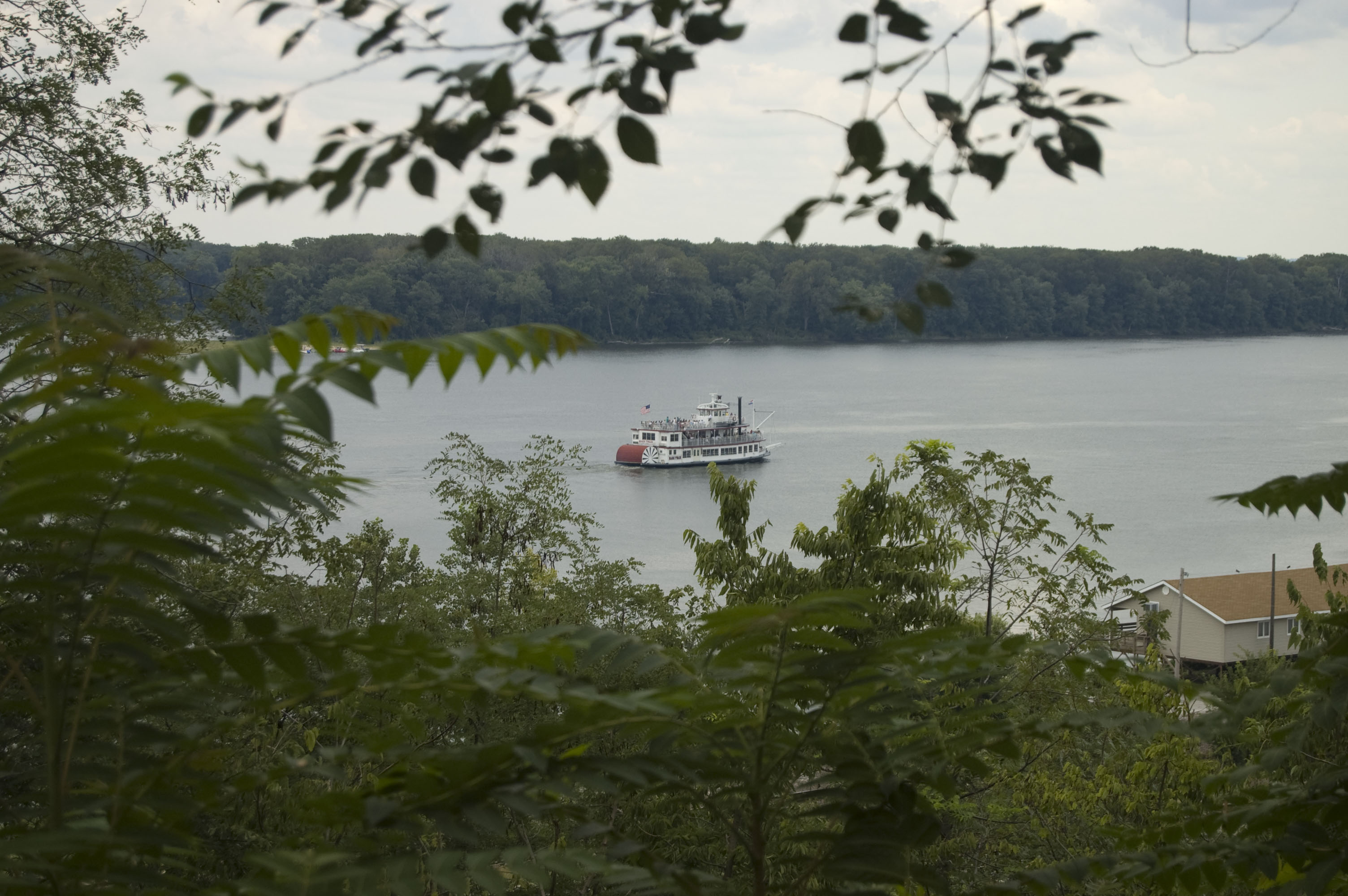 A view of a boat on the Mississippi. The picture was taken from Cardiff Hill in Hannibal, Missouri.